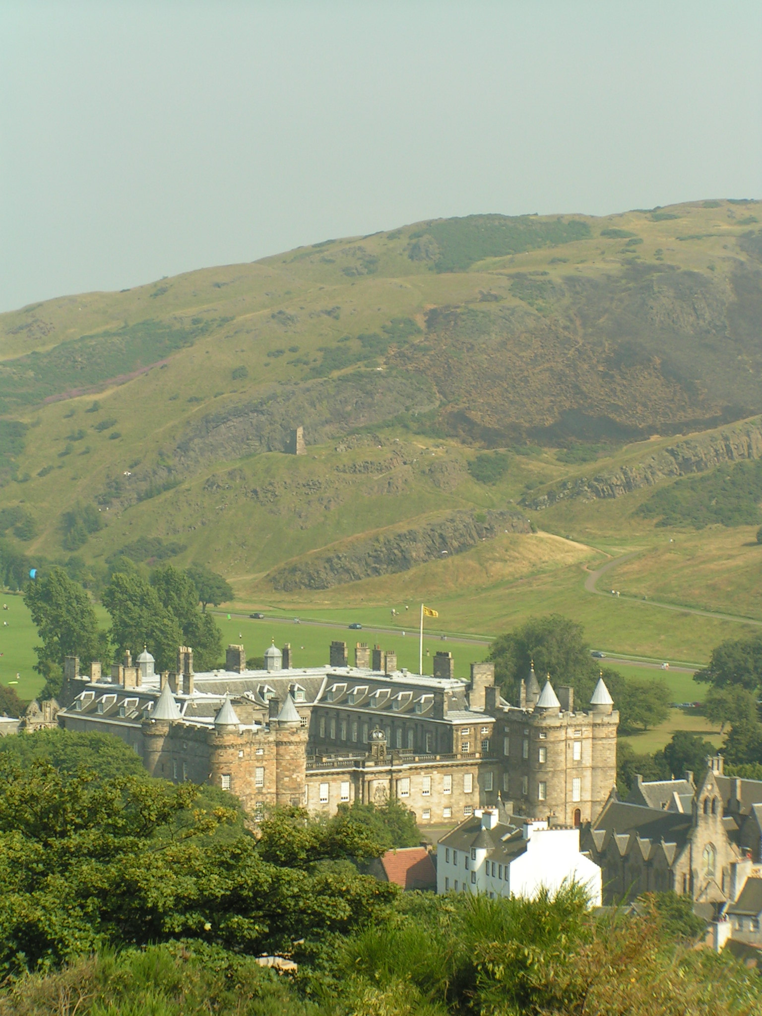 Holyrood Palace in Edinburgh with Arthur's Seat in the background Source: taken in Summer 2004